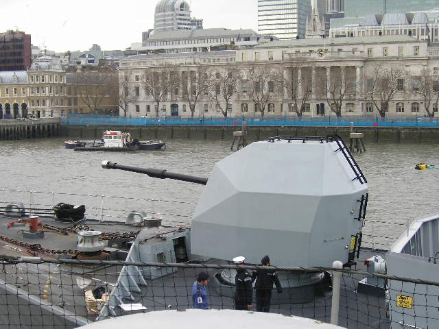 4.5 inch naval gun on HMS Northumberland, April 2007